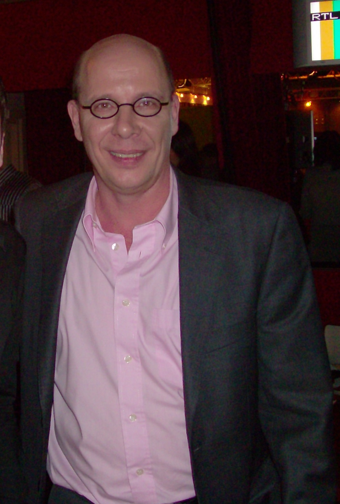 Co Stompé